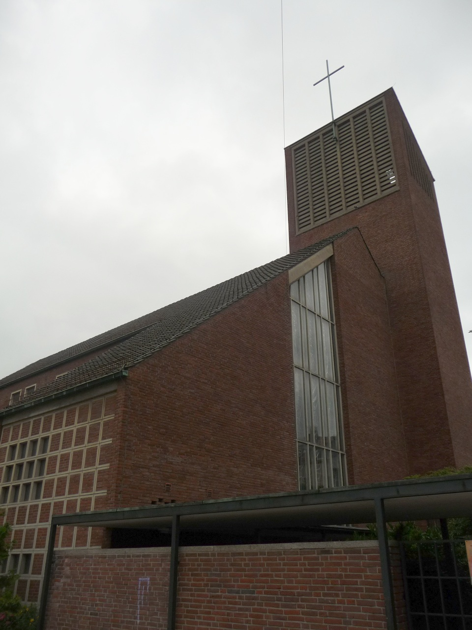 Hohentor-Church in Bremen-Neustadt